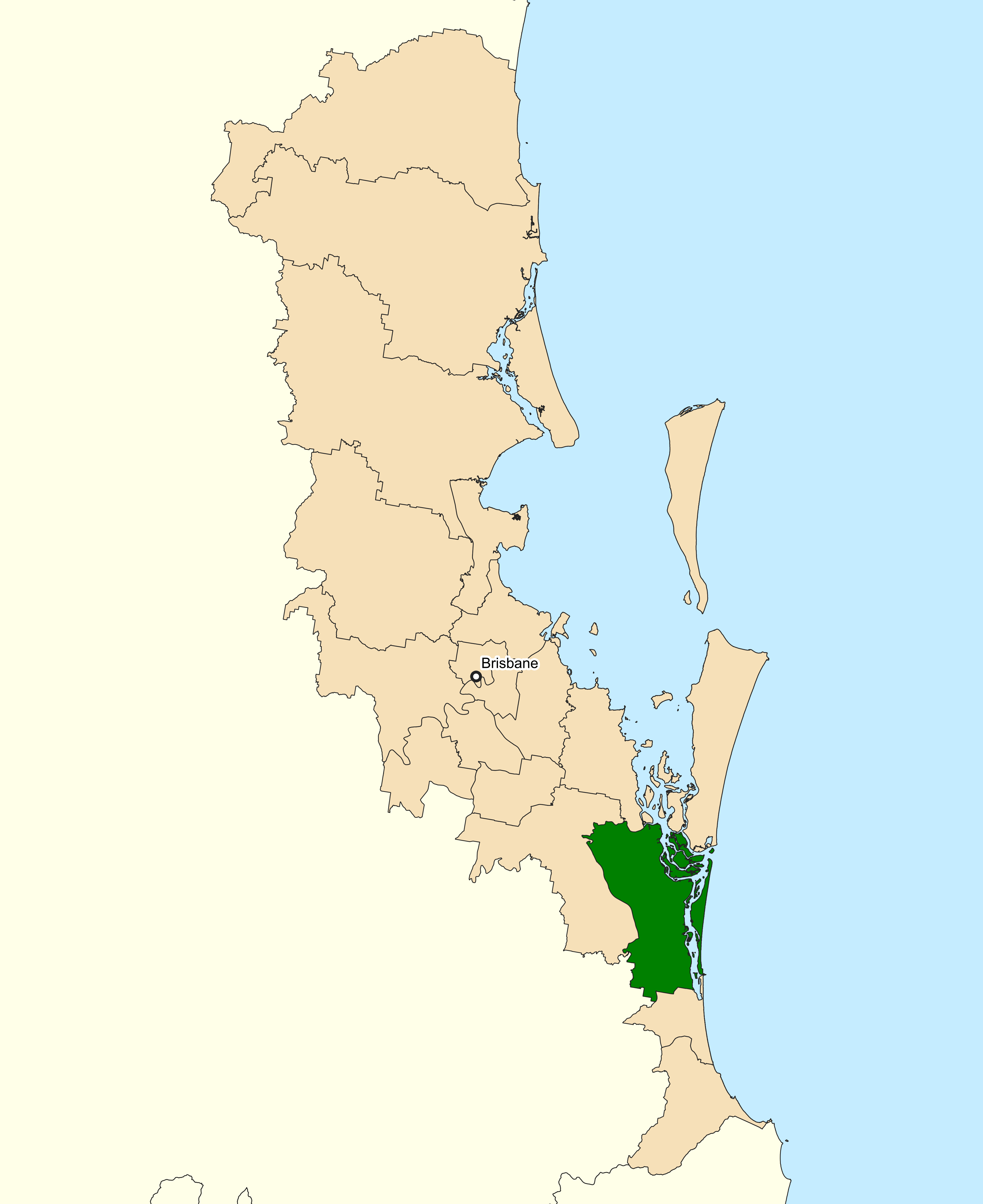 Location of the Australian federal electoral division of Fadden (dark green) in Greater Brisbane, Queensland as of the 2019 Australian federal election. Incorporates or developed using Administrative Boundaries ©PSMA Australia Limited licensed by the Commonwealth of Australia under Creative Commons Attribution 4.0 International licence (CC BY 4.0).